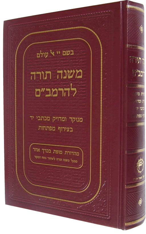 Mishne Torah, the Oral law by Maimonides, in 1 volume.